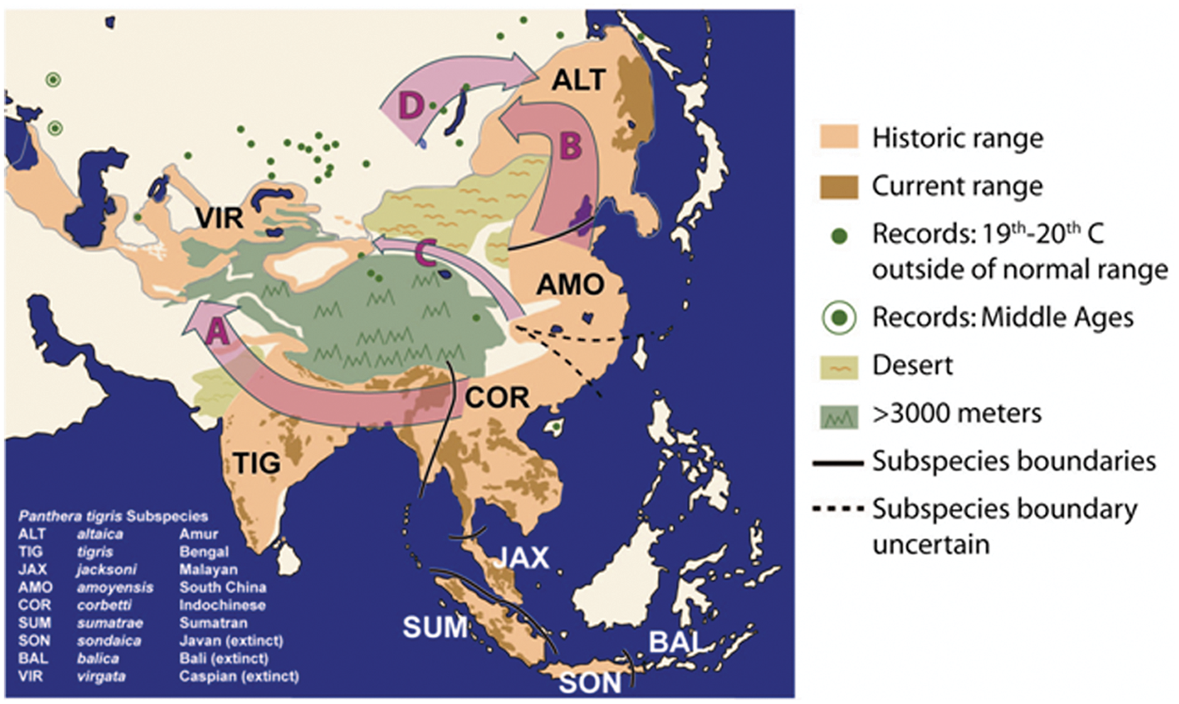 Historical range of tiger distribution is shown in light tan and current range is shown in dark tan, while green dots indicate individual historical recordings of tigers outside of normal distribution. Green ‘O’ indicate records from the Middle Ages. Black lines demarcate presumed subspecies boundaries. Abbreviations correspond to traditionally named tiger subspecies, arranged chronologically by date of naming. 1) tigris Linnaeus, 1758; 2) virgata Illiger, 1815; 3) altaica Temminck, 1844; 4) sondaica Temminck, 1844; 5) amoyensis Hilzheimer, 1905; 6) balica Schwarz, 1912; 7) sumatrae Pocock, 1929; 8) corbetti Mazak, 1968; 9) jacksoni Luo et al., 2004. Lettered arrows indicate postulated dispersal avenues: (A) Indian, southern route; (B) Siberian, northern route; and (C) Silk road/ Gansu route with (D) secondary eastward dispersal. See text for details. Redrawn from Figures 19 and 20 in Mazak (1983) and Figure 1 in Kitchener and Dugmore (2000).